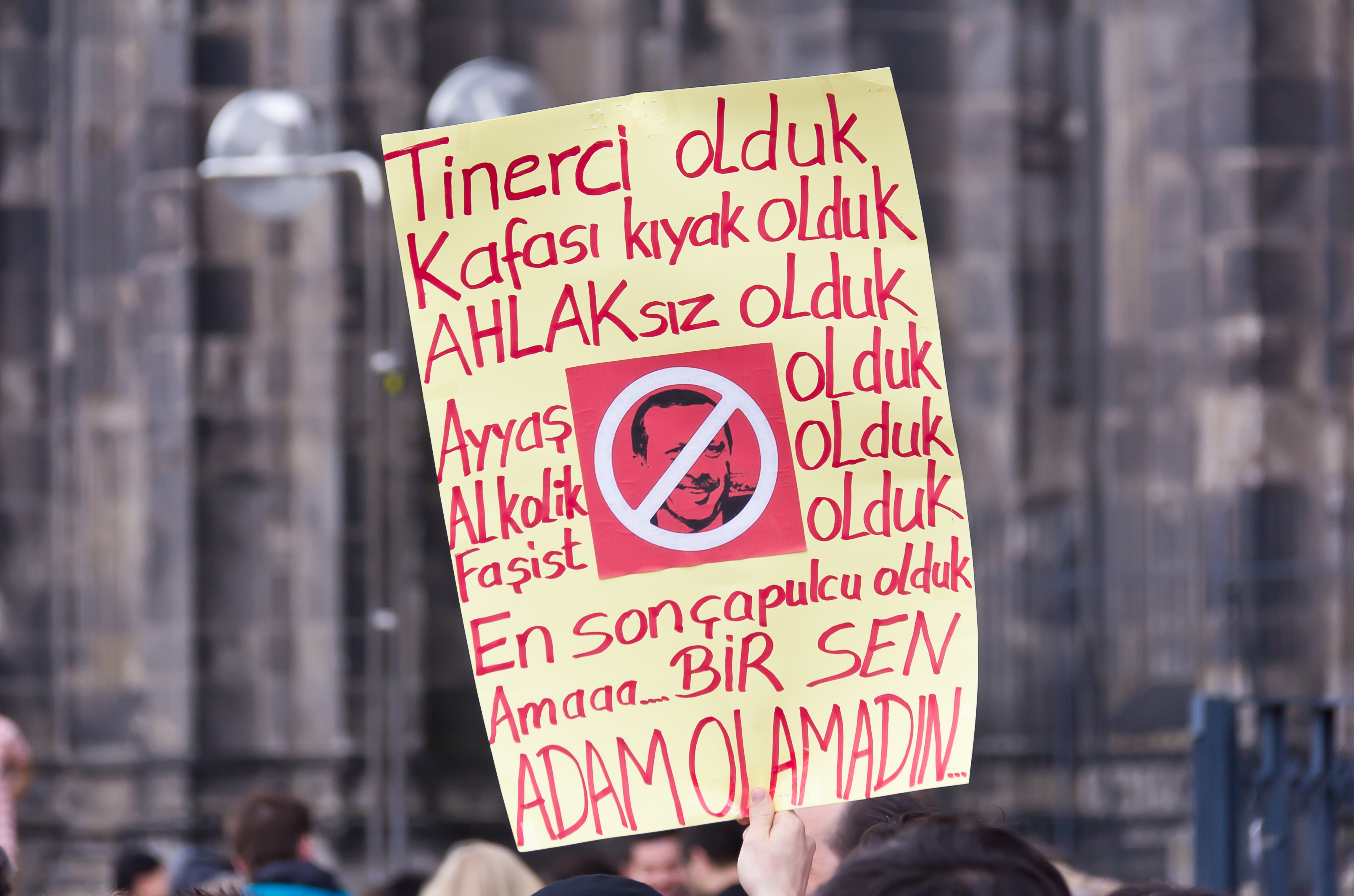 Taksim Gezi Park protests in Cologne